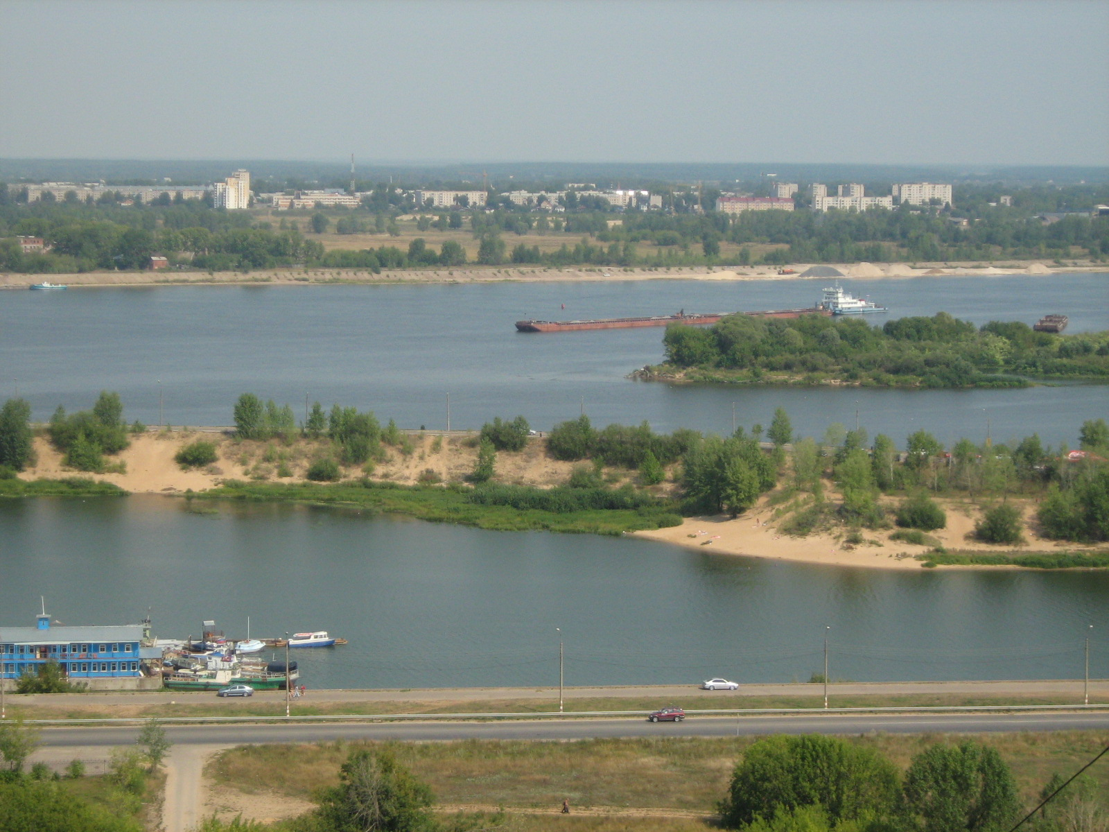 Looking north from near Sennaya Sq. in Nizhny Novgorod - across the Rowing Canal and the Volga, toward the city of Bor